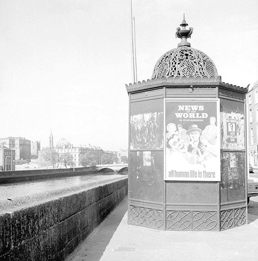 A very ornate urinal on Ormond Quay, Dublin featuring a poster ad for the News of the World. Date: 1969 NLI Ref.: WIL 41[12]